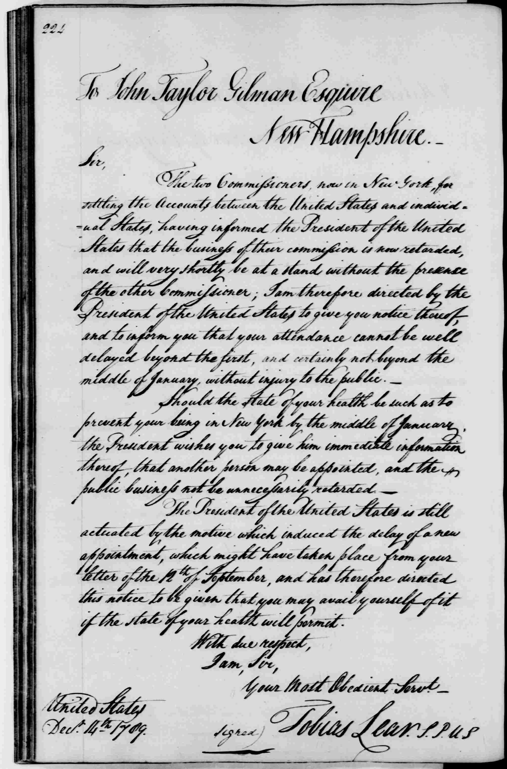 Letter from Tobias Lear, personal secretary to George Washington, to John Taylor Gilman of Exeter, New Hampshire. The George Washington Papers, Series 2 Letterbooks, Library of Congress, Washington, D. C.